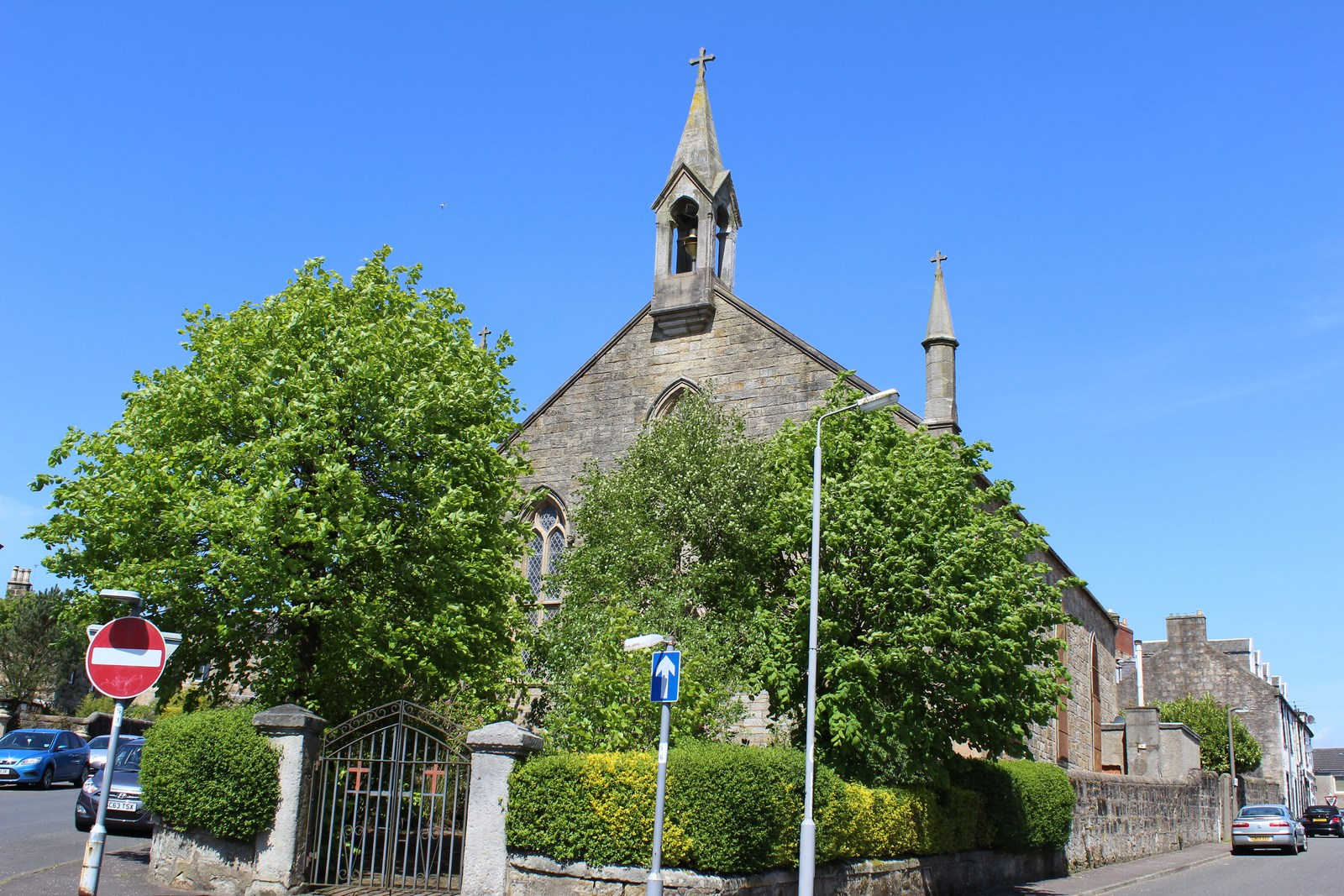 St Palladius' RC Church, Aitken Street, Dalry